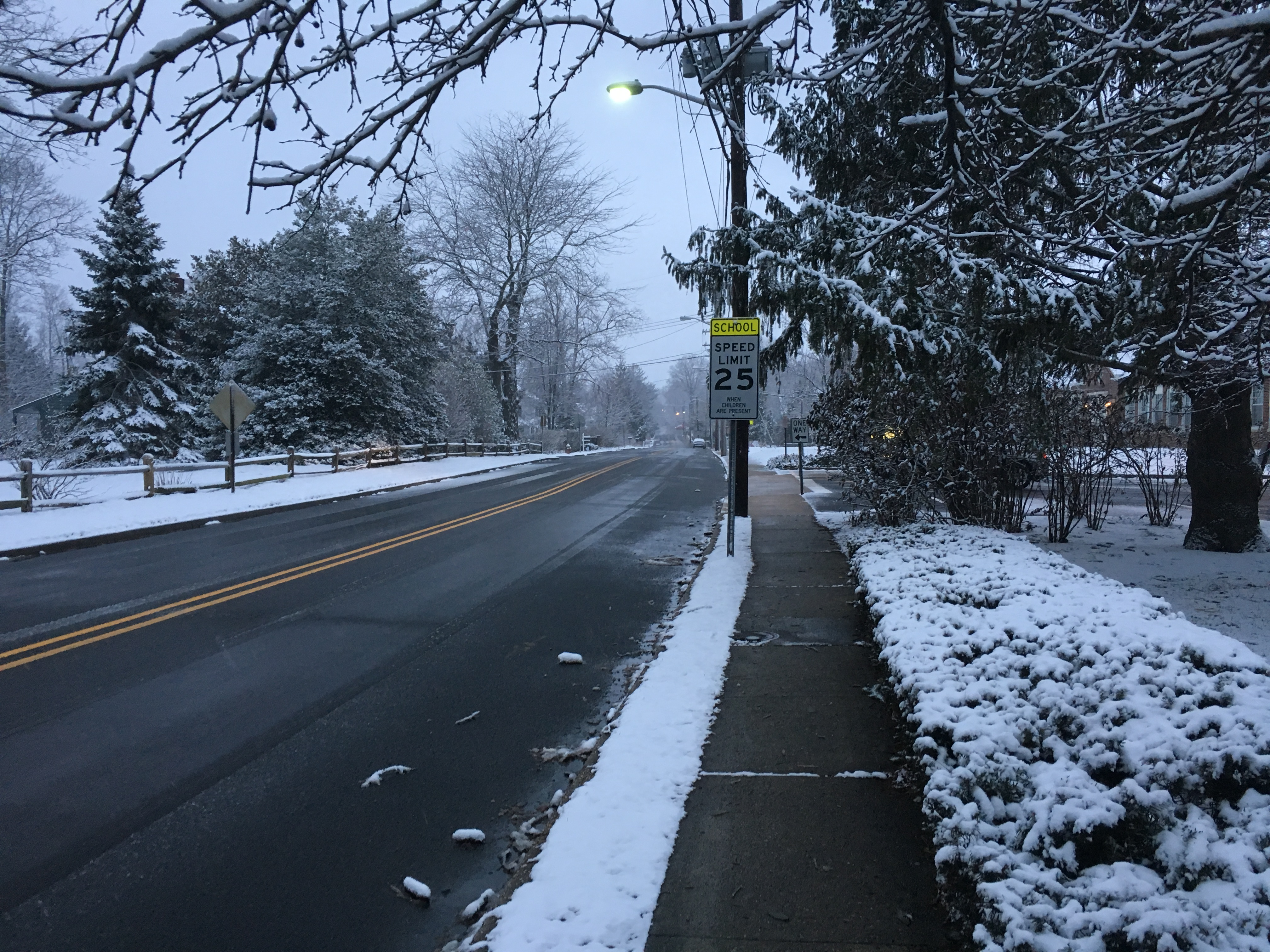 Navesink, New Jersey on March 4, 2016 during the winter. Taken on the sidewalk next to Navesink Elementary School.